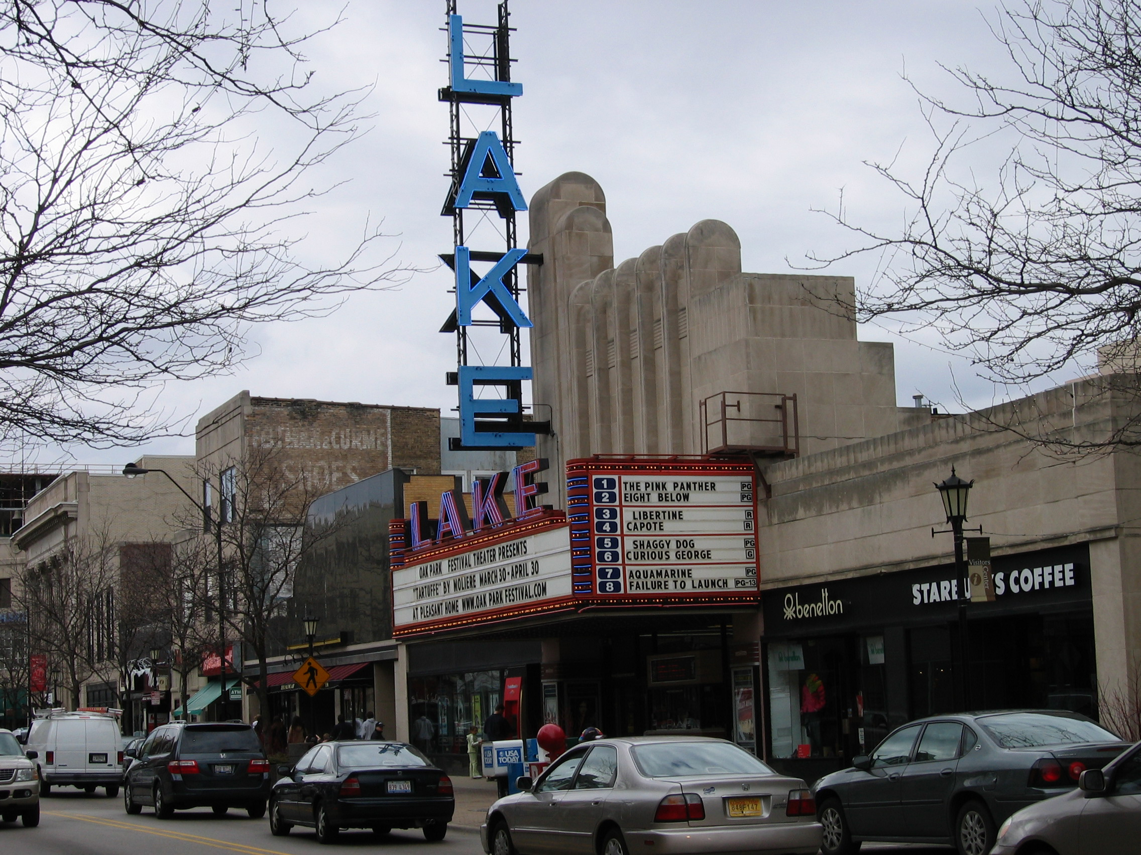 The Lake Theater (Classic Cinemas) and shops along Lake Street in Oak Park, Illinois.